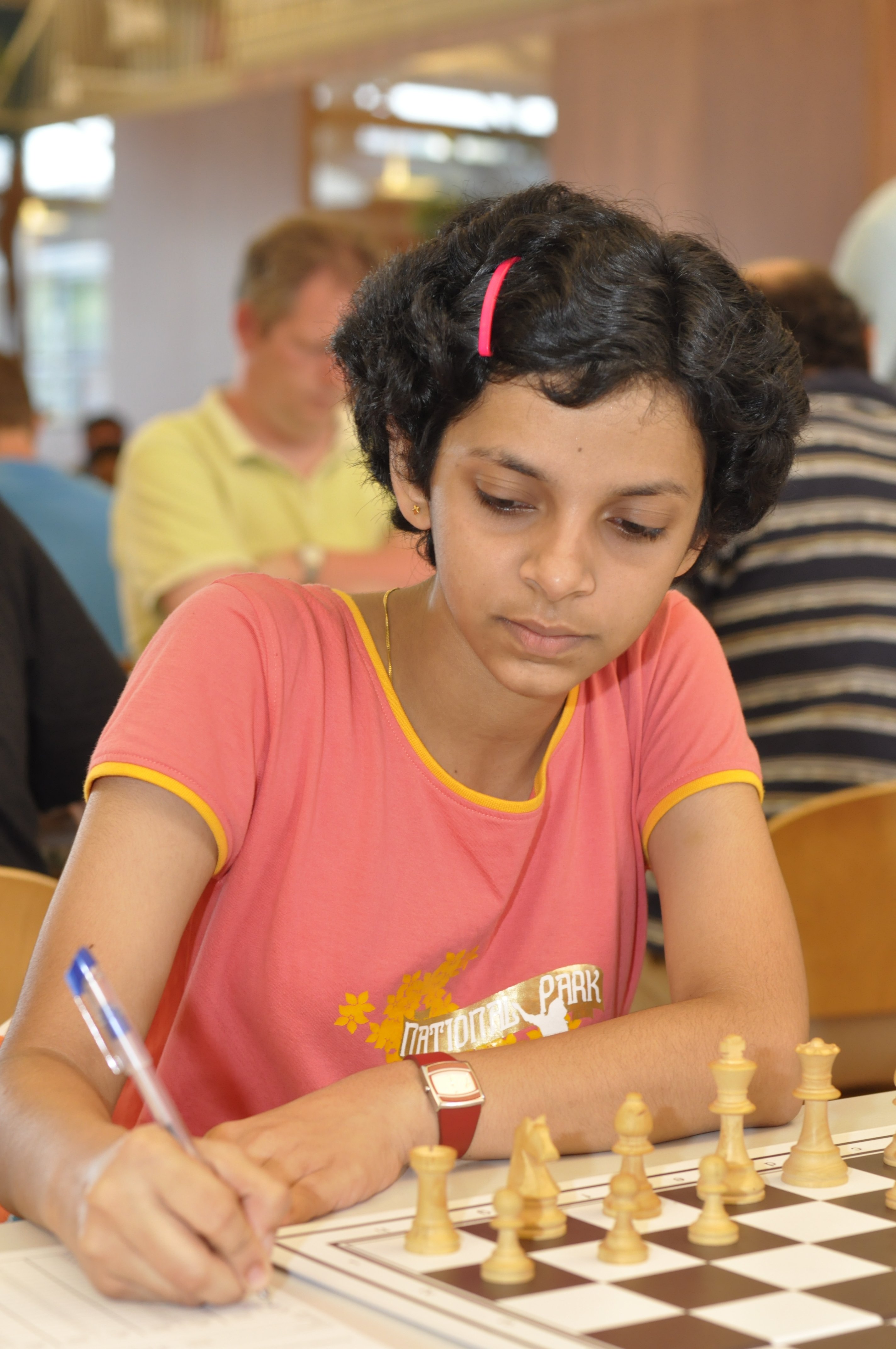 WGM Rout Padmini, Vlissingen 2009.